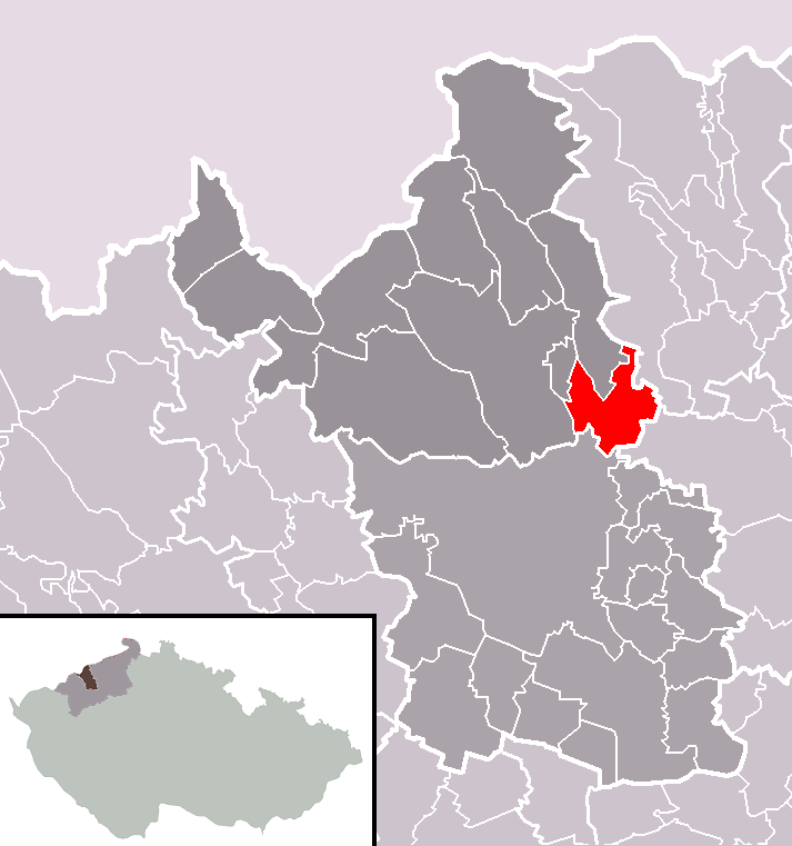 Location of Mariánské Radčice municipality within Most District and administrative area of Litvínov as a Municipality with Extended Competence.